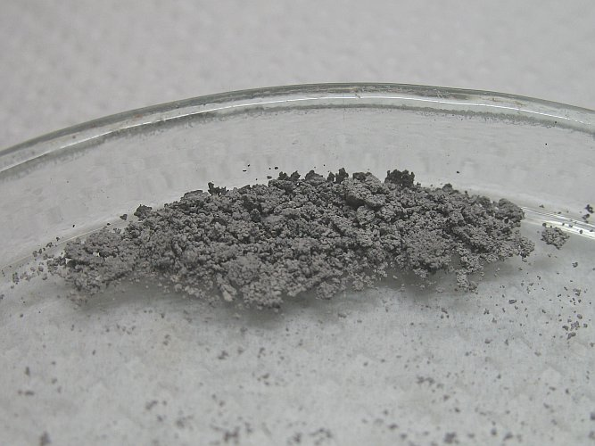 Silver acetylide crystals